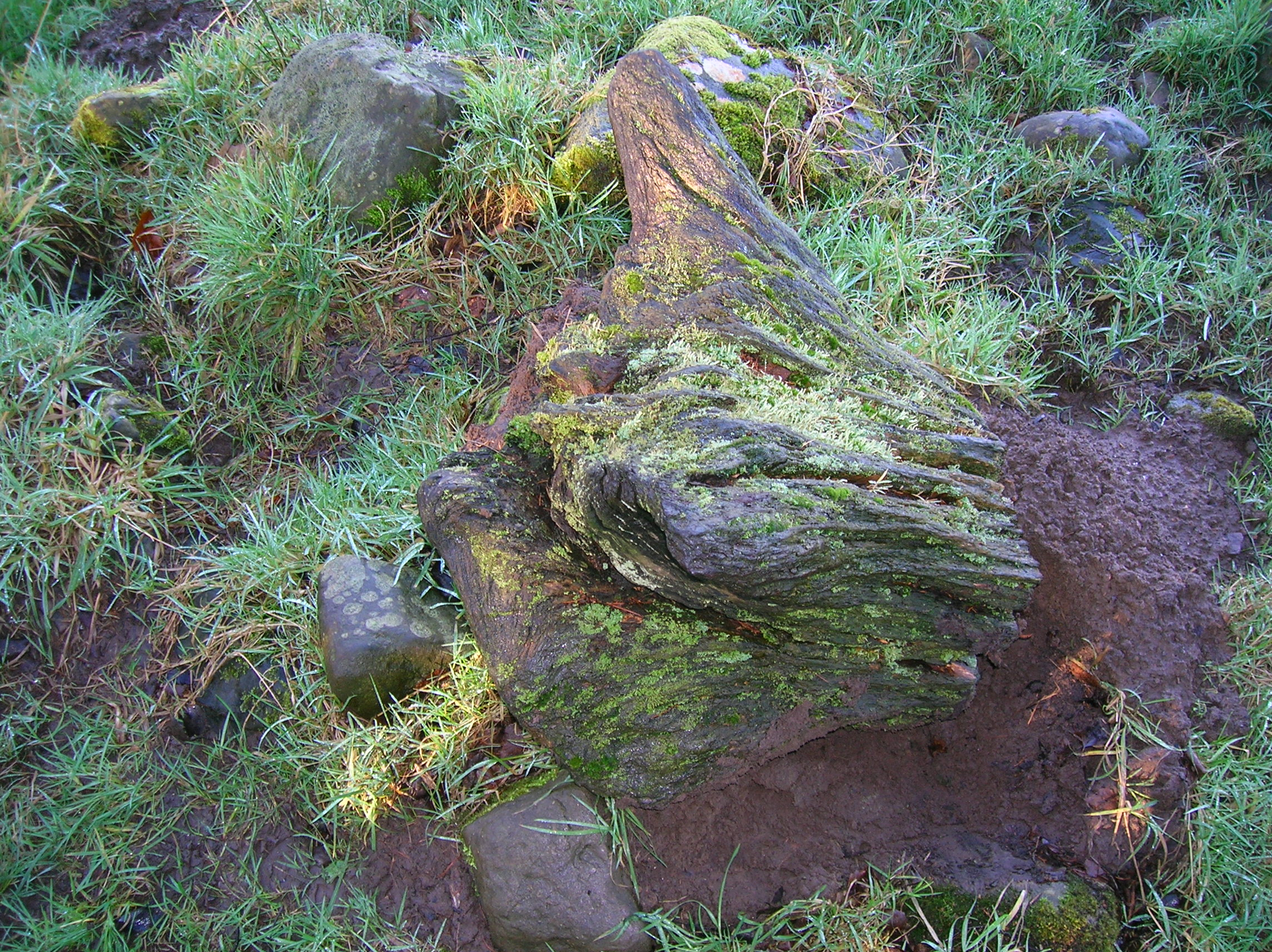 Bog-wood tree stump